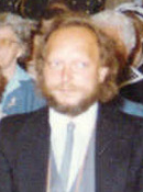 Christoph Exler